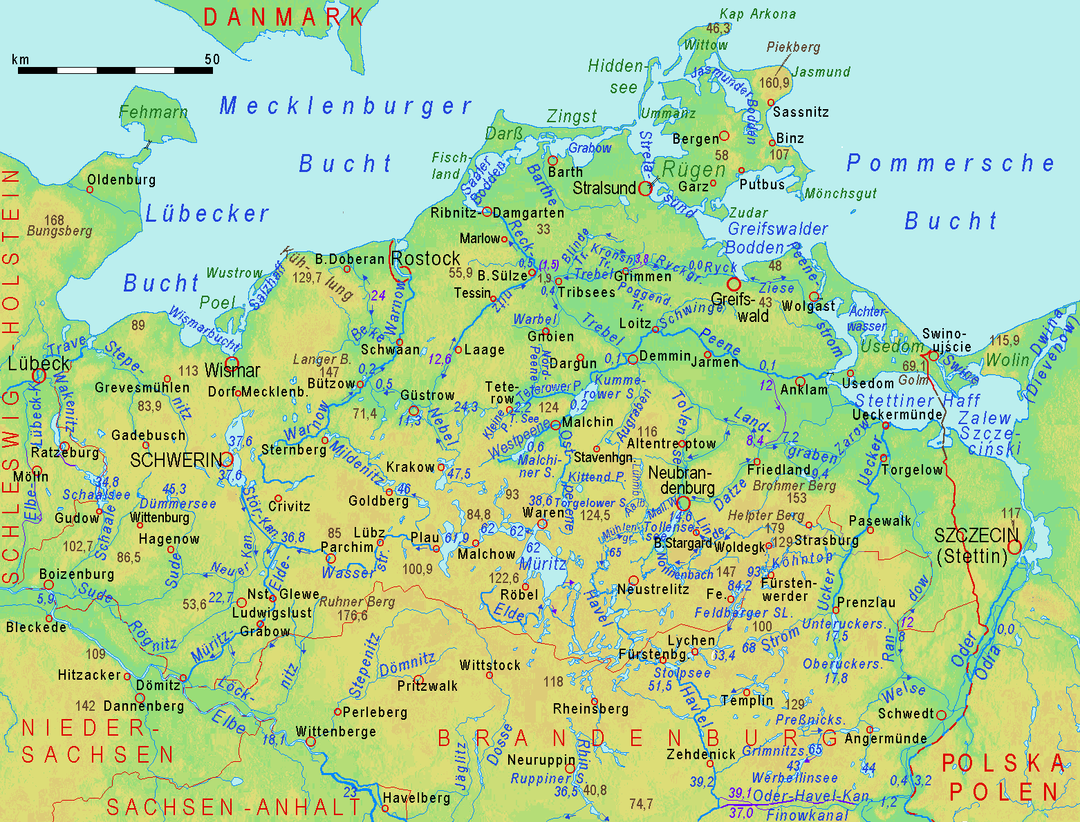 Physical map of Mecklenburg-Western Pomerania:Brown figures = soil above sea level in meters (measure at the point, name above or below)dark blue figures = water level above sea level in metersdark blue arrows = direction of water flowlilac = water bodies crossing divides